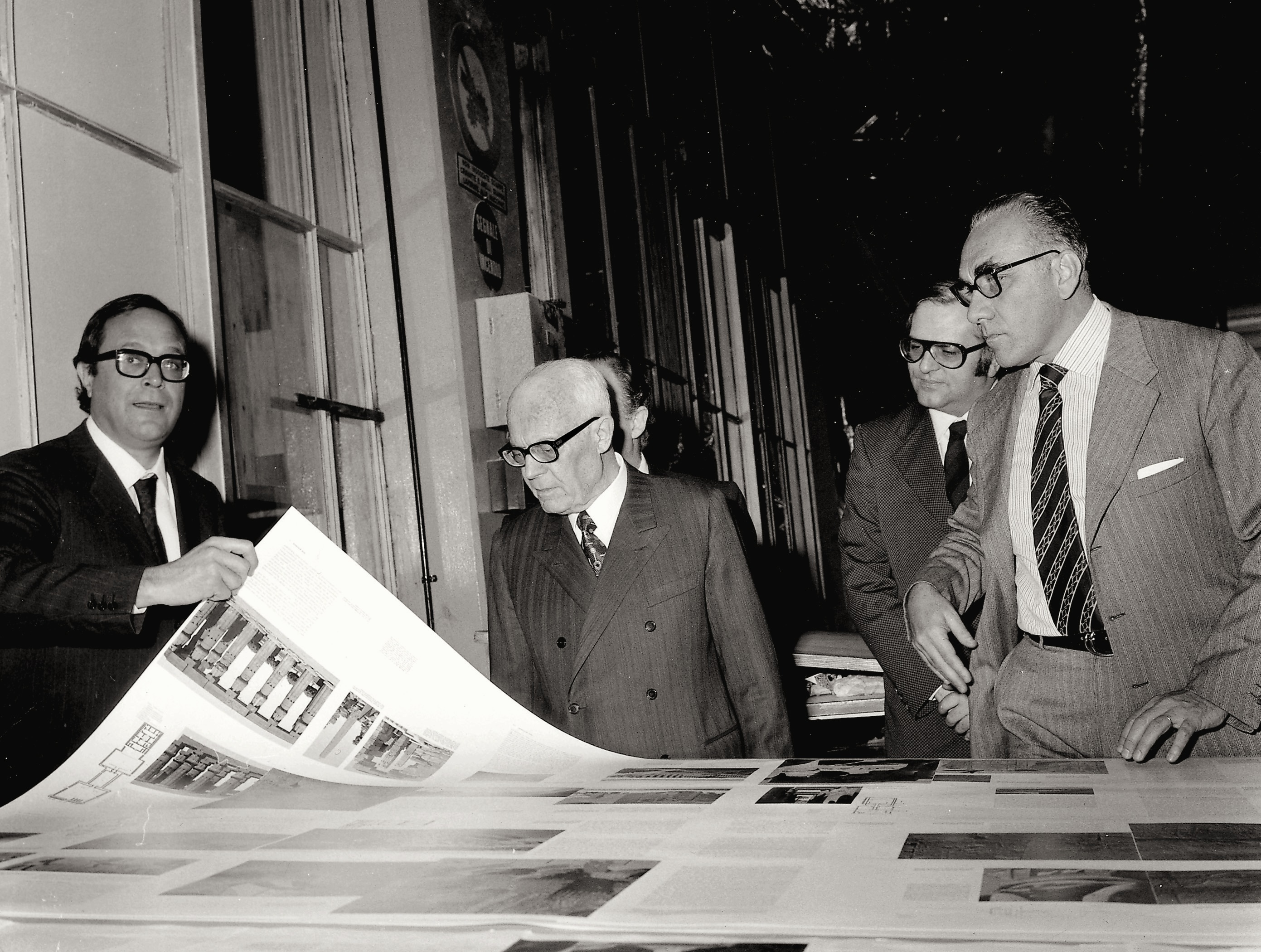 Italian publisher Giorgio Mondadori and Italian President Sandro Pertini